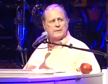 Brian Wilson and Al Jaridine performing Good Vibrations at the Lincoln Theater in Washington D.C.